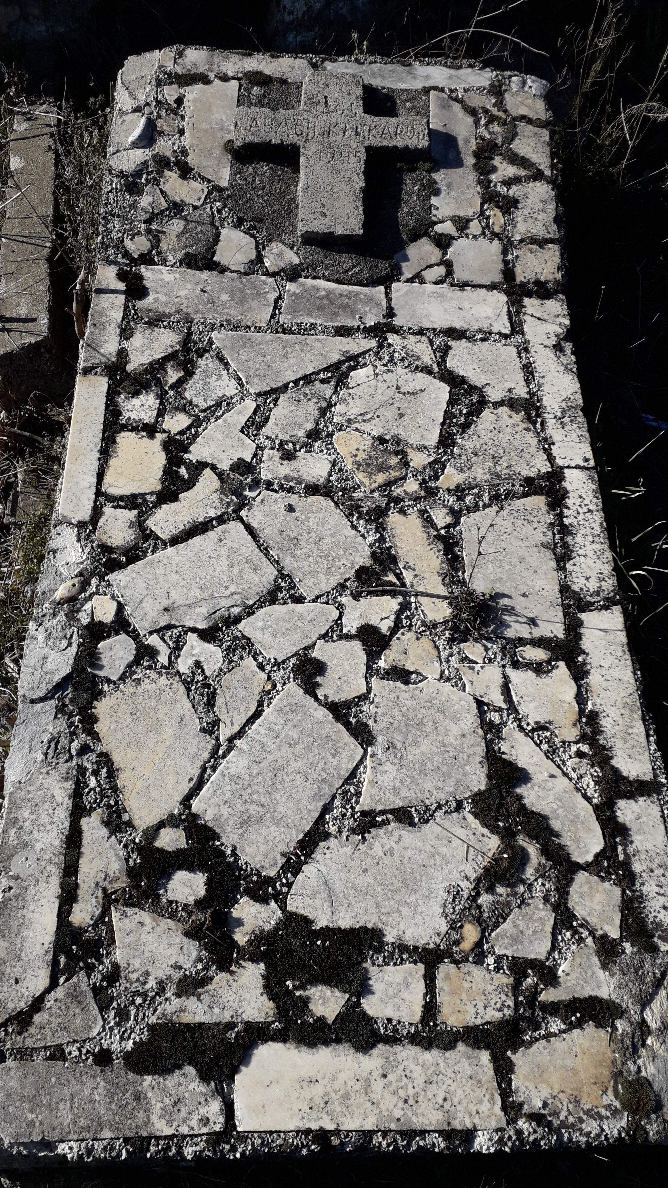 Anton Ketskarov grave, Ohrid